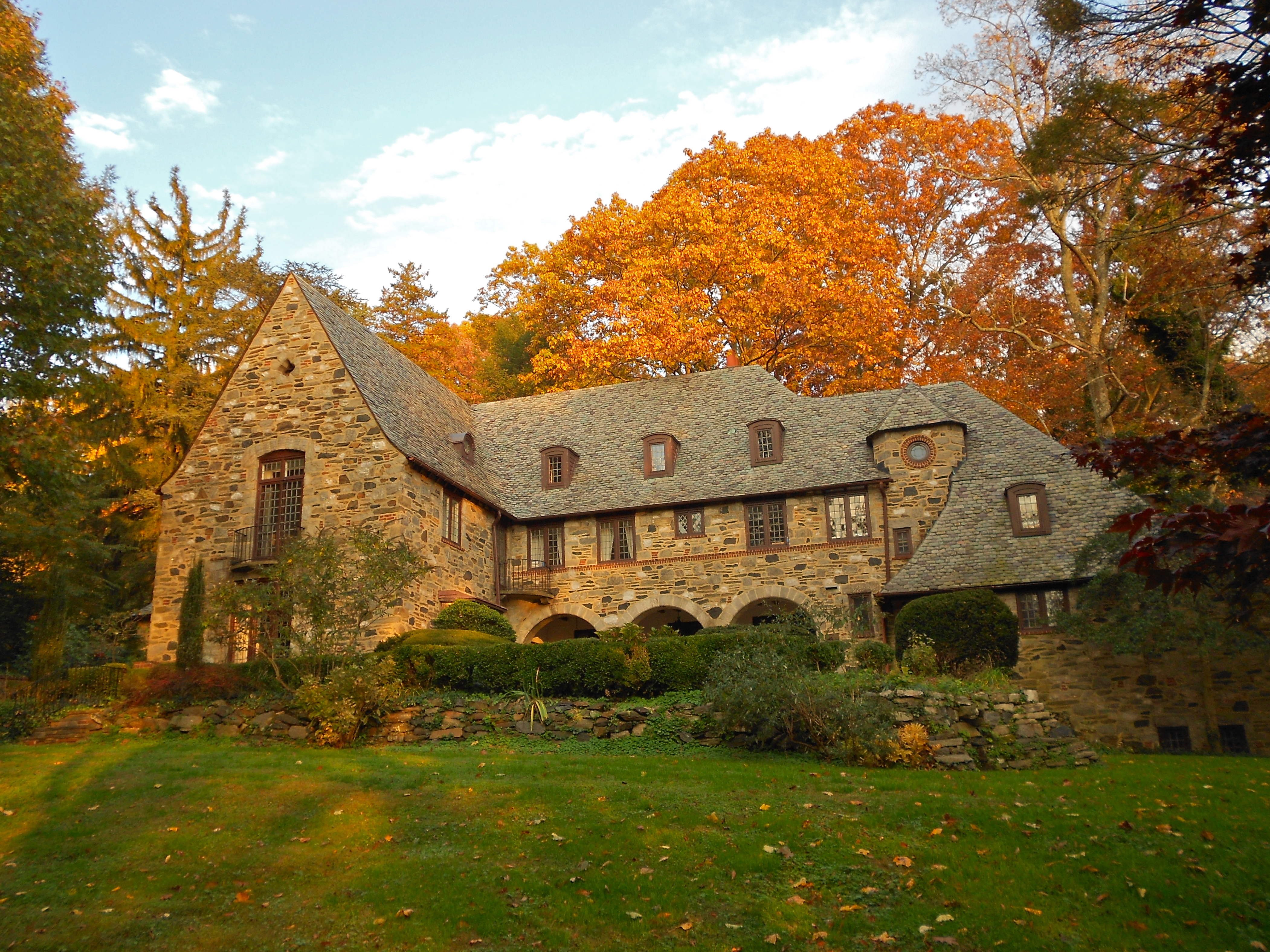 Building in Rose Valley, Pennsylvania a historic district listed on the NRHP in 2010. This is thearchitect Howell Lewis Shay's home on Possum Hollow Road, uphill from the Guest House